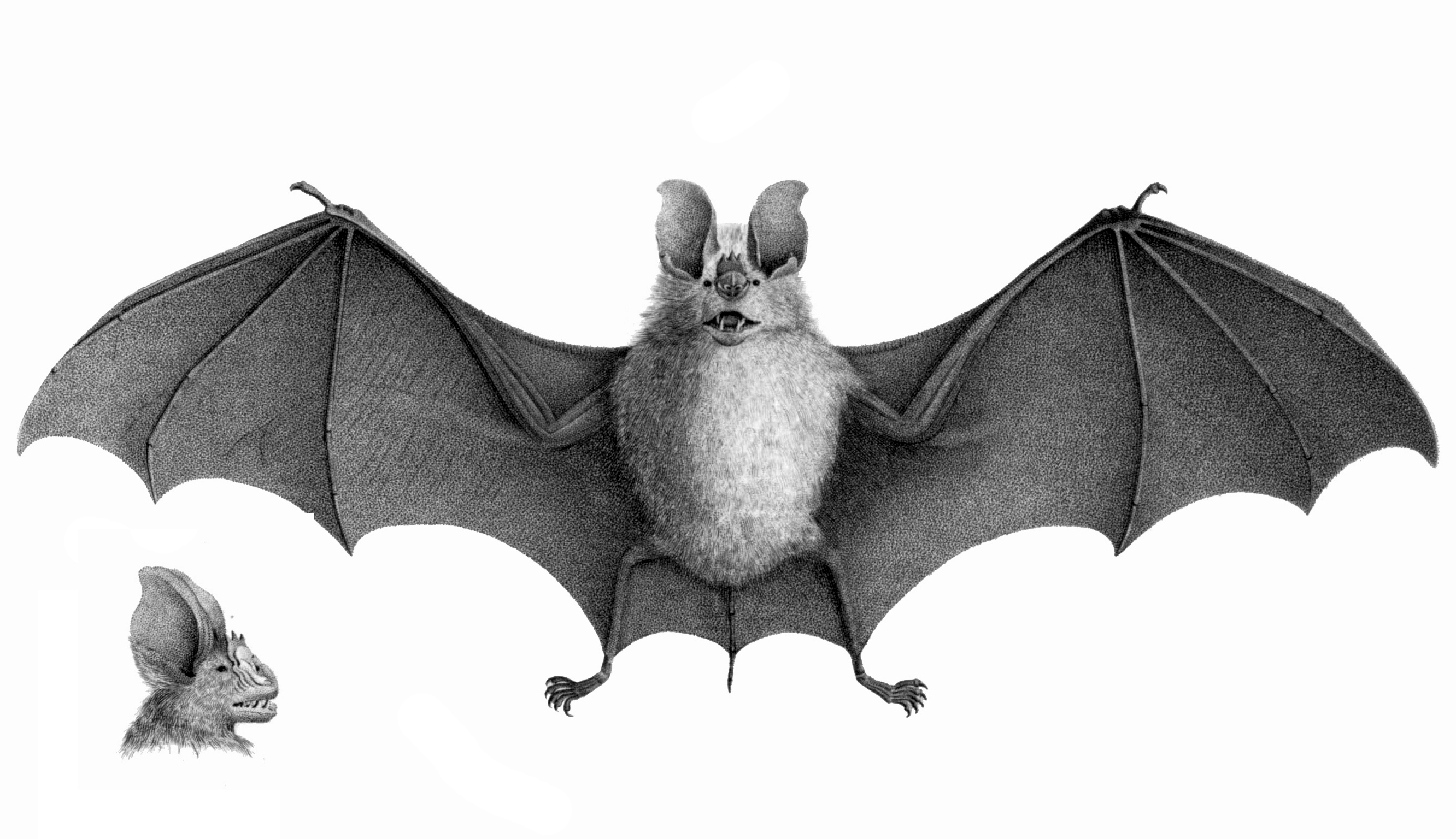 Asellia tridens